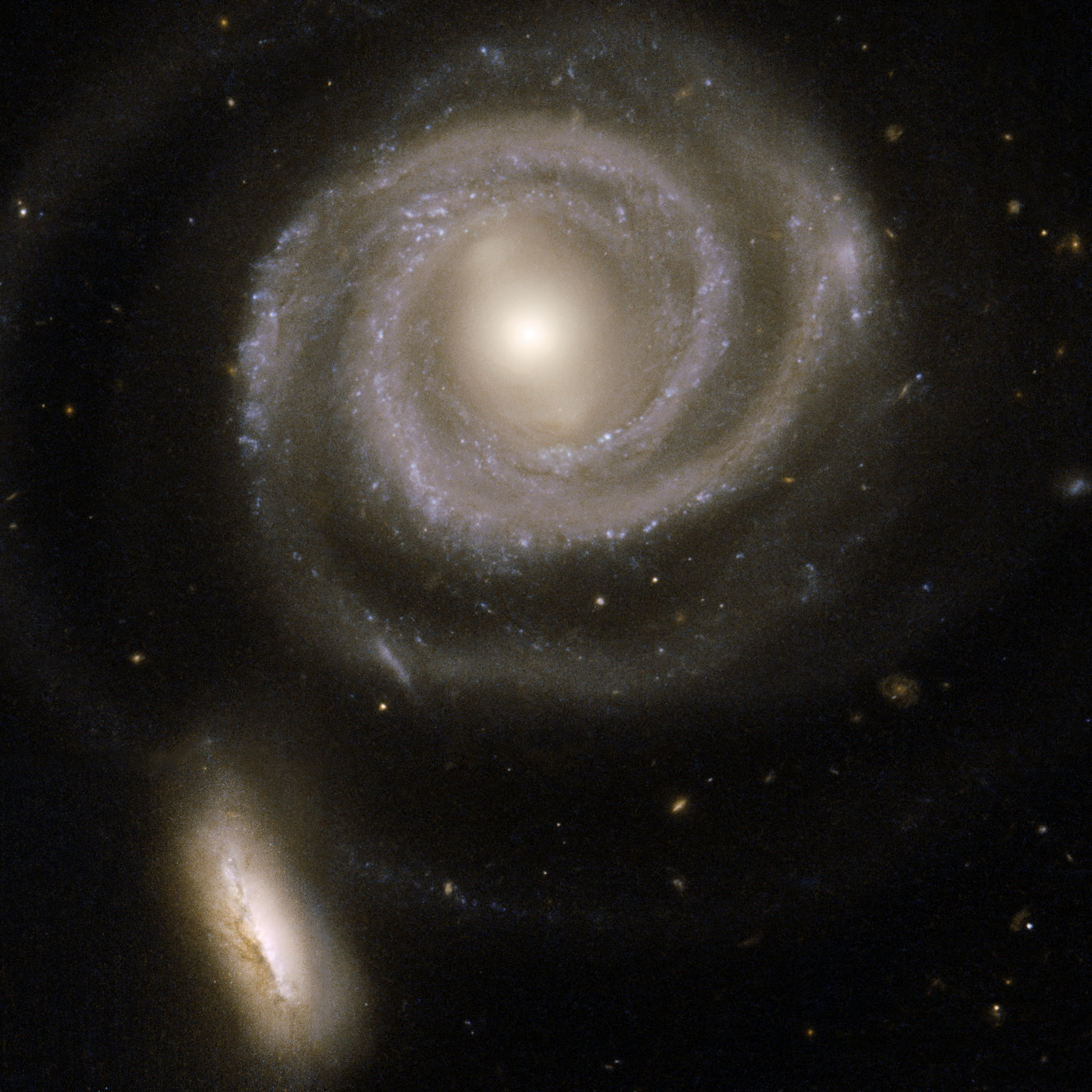 This beautiful pair of interacting galaxies consists of NGC 5754, the large spiral on the right, and NGC 5752, the smaller companion in the bottom left corner of the image. NGC 5754's internal structure has hardly been disturbed by the interaction. The outer structure does exhibit tidal features, as does the symmetry of the inner spiral pattern and the kinked arms just beyond its inner ring. In contrast, NGC 5752 has undergone a starburst episode, with a rich population of massive and luminous star clusters clumping around the core and intertwined with intricate dust lanes. The contrasting reactions of the two galaxies to their interaction are due to their differing masses and sizes. NGC 5754 is located in the constellation Bootes, the Herdsman, some 200 million light-years away. This image is part of a large collection of 59 images of merging galaxies taken by the Hubble Space Telescope and released on the occasion of its 18th anniversary on 24th April 2008. About the objectObject nameNGC 5754, NGC 5752, NGC 5752/4, Arp 297Object descriptionInteracting GalaxiesPosition (J2000)14 45 19.64 +38 43 54.0ConstellationBo tesDistance200 million light-years (50 million parsecs)About the dataData descriptionThe Hubble image was created using HST data from proposal 7467: W. Keel (University of Alabama, Tuscaloosa)InstrumentWFPC2Exposure date(s)March 14, 1999Exposure time1.4 hoursFiltersF435W (B) and F814W (I)